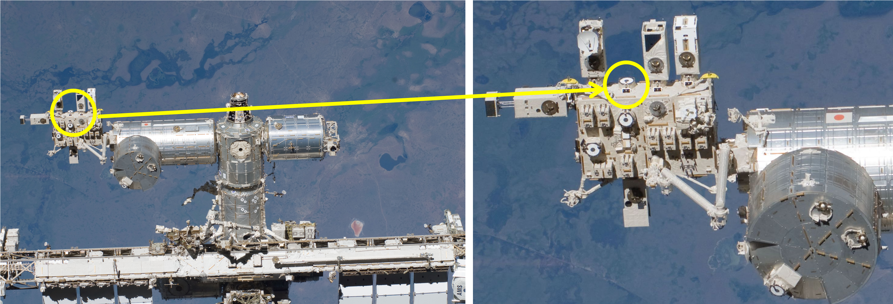 Mounting position of the Sony α7S II camera on the ISS